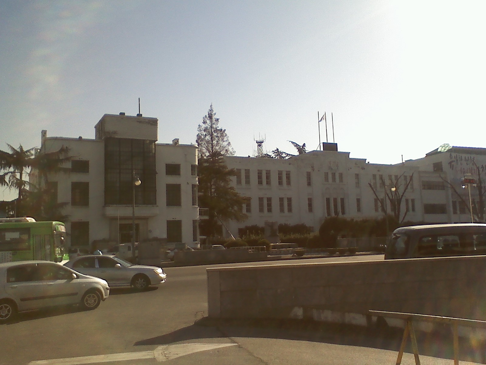 Gwangju Jeollanam-do office building